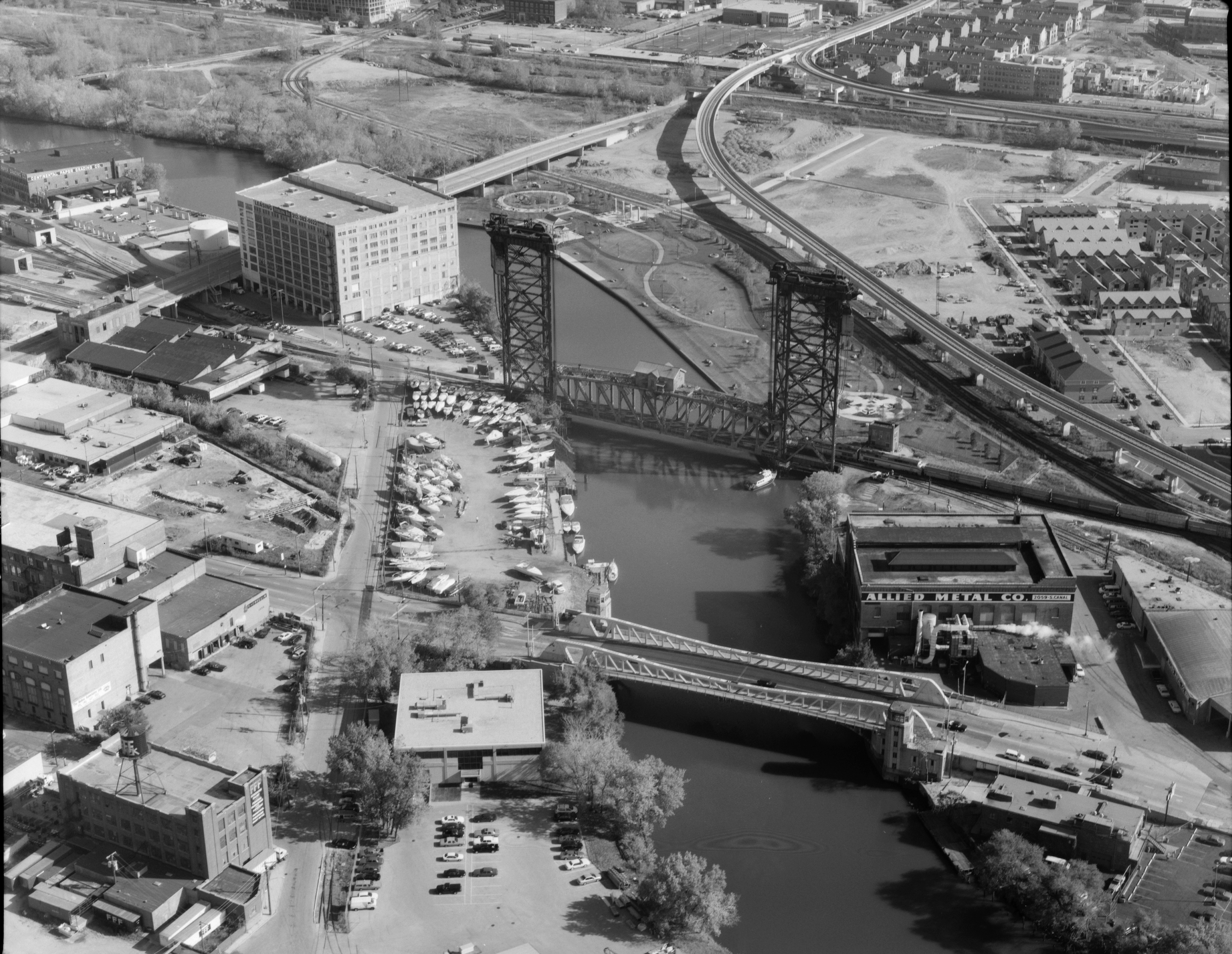 Canal Street bridges, Chicago, Illinois. Aerial view, looking north east. Canal Street bridge is in the foreground, Canal Street railroad bridge is in the middle distance.